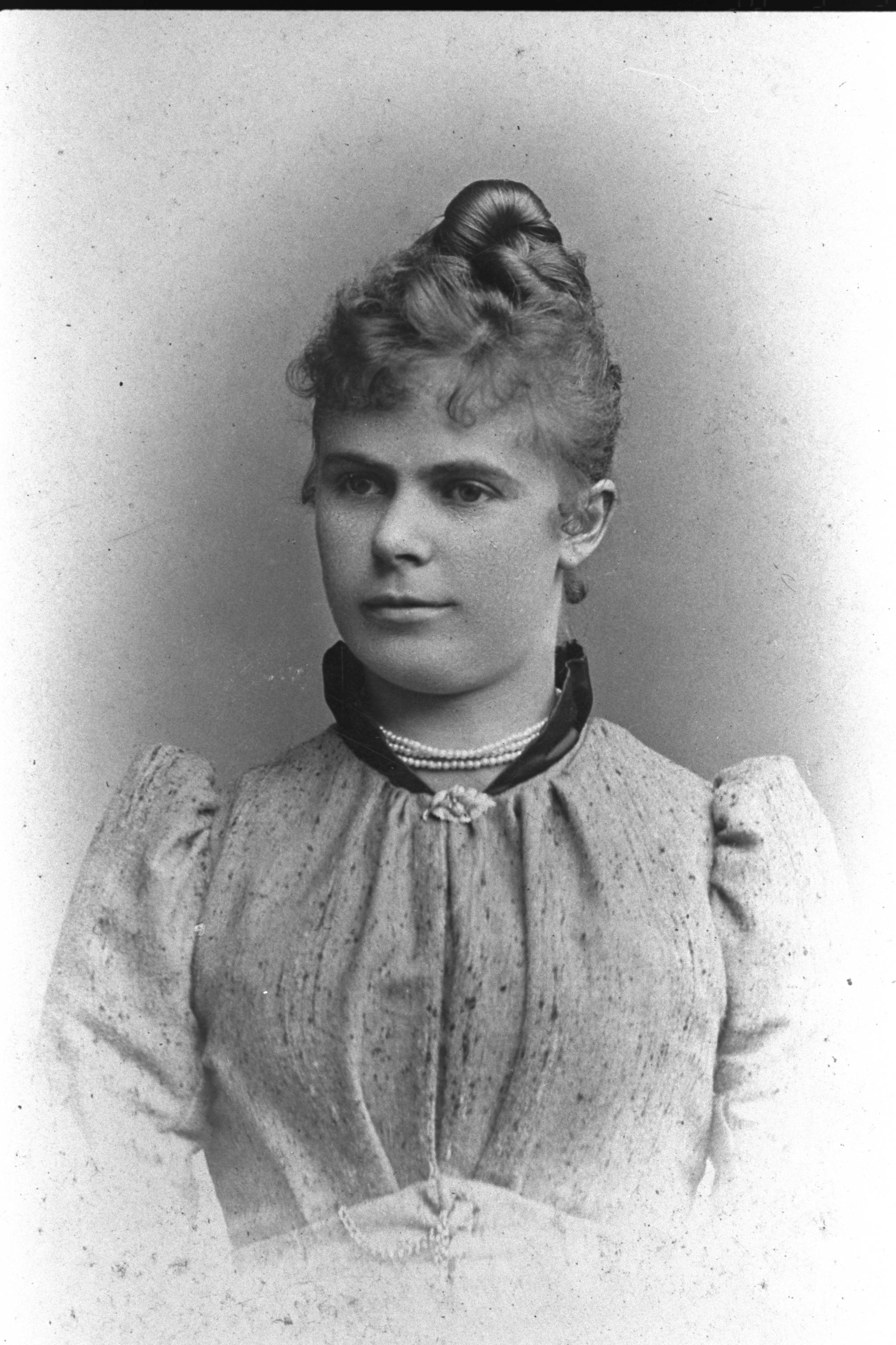 Professional photograph of a person from around the turn of the 19th/20th century.